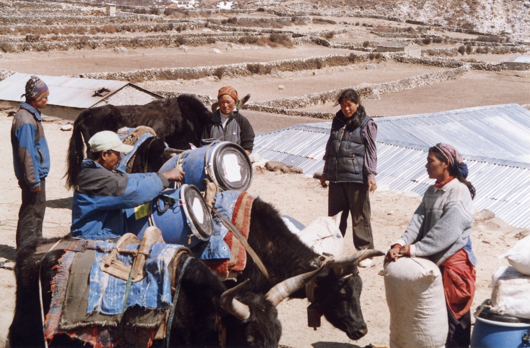 Dingboche, Nepal